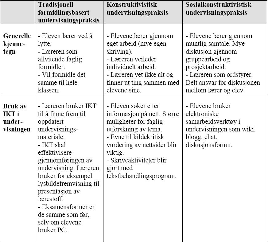 A comparison of ICT-use based on different didactical approaches